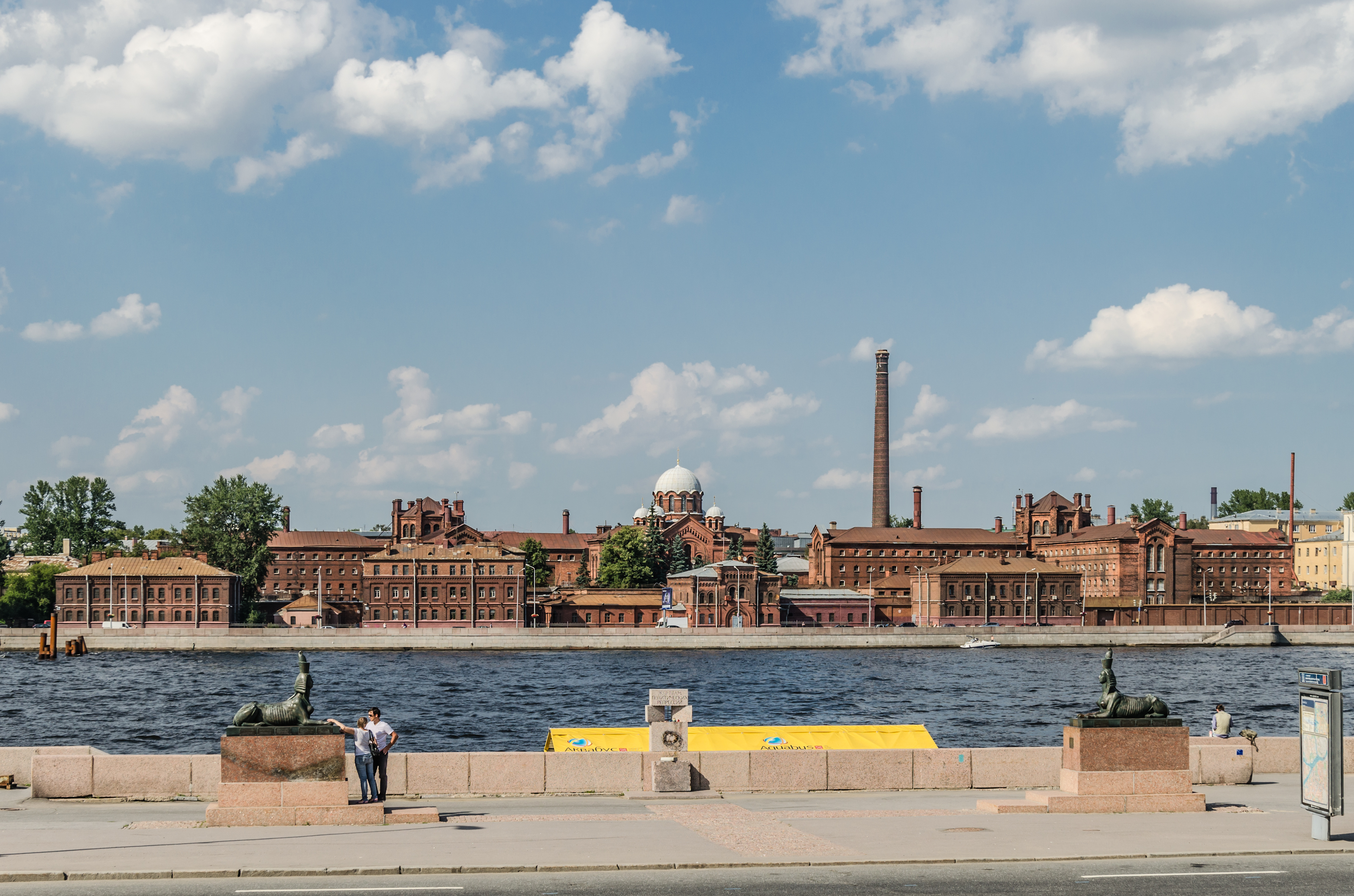 "Kresty" prison in Saint Petersburg